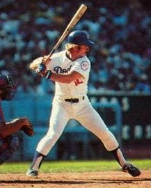 Image cropped from a baseball card of Ron Cey from the 1981 Los Angeles Dodgers Police Set